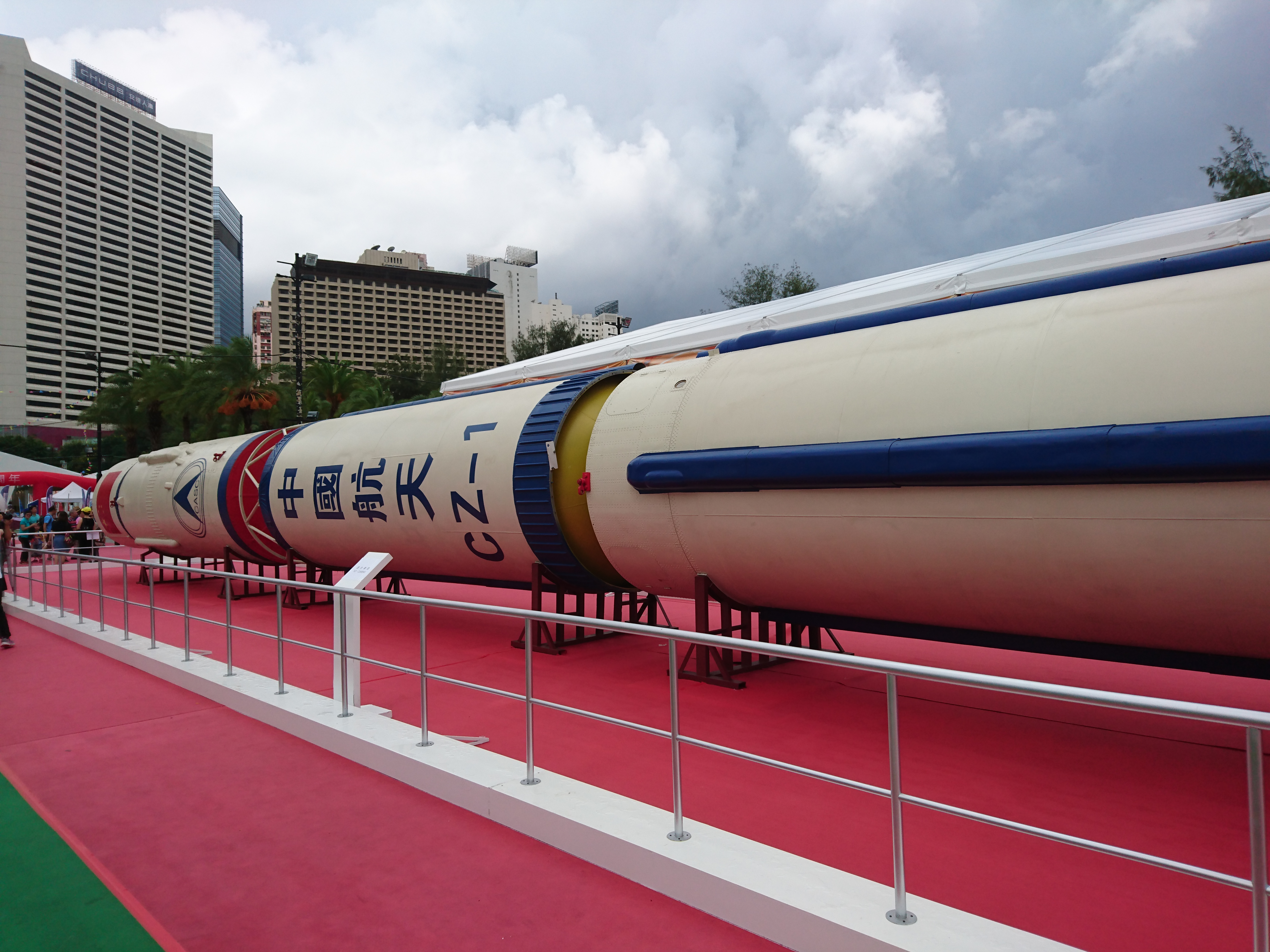 Changzheng-1 Rocket Model in Victoria Park, Hong Kong